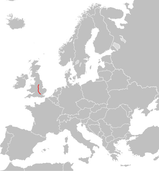 The European route 13